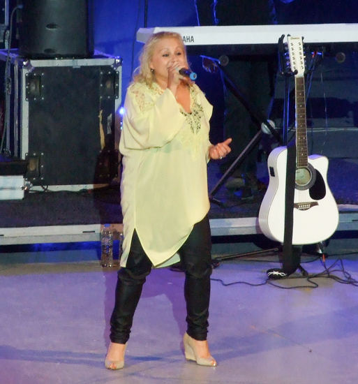 The Bulgarian singer Toni Dimitrova performing with the supergroup Legendite at the Summer Amphitheater, Burgas.